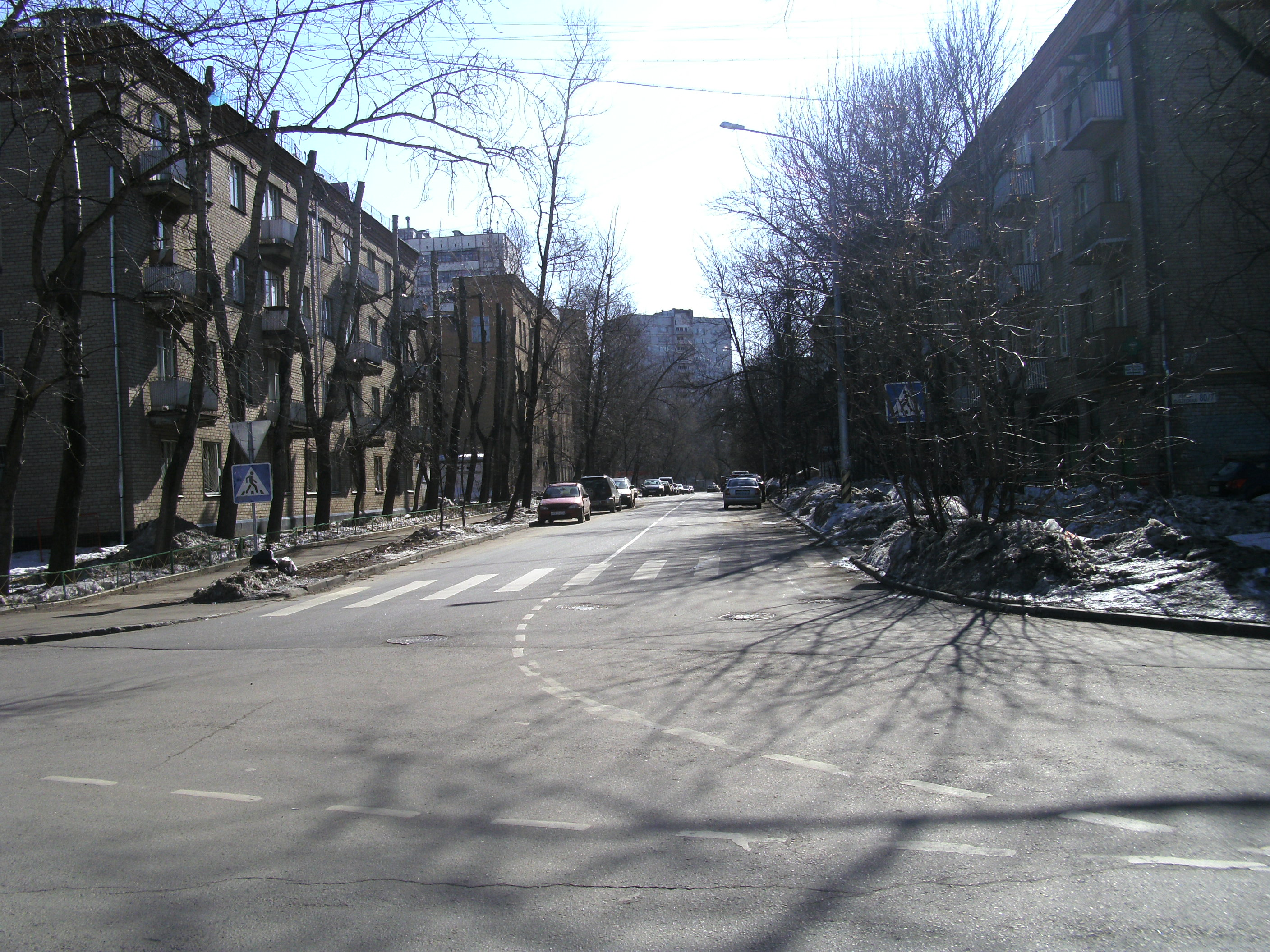 The end of Senezhskaya street, Moscow, Russia